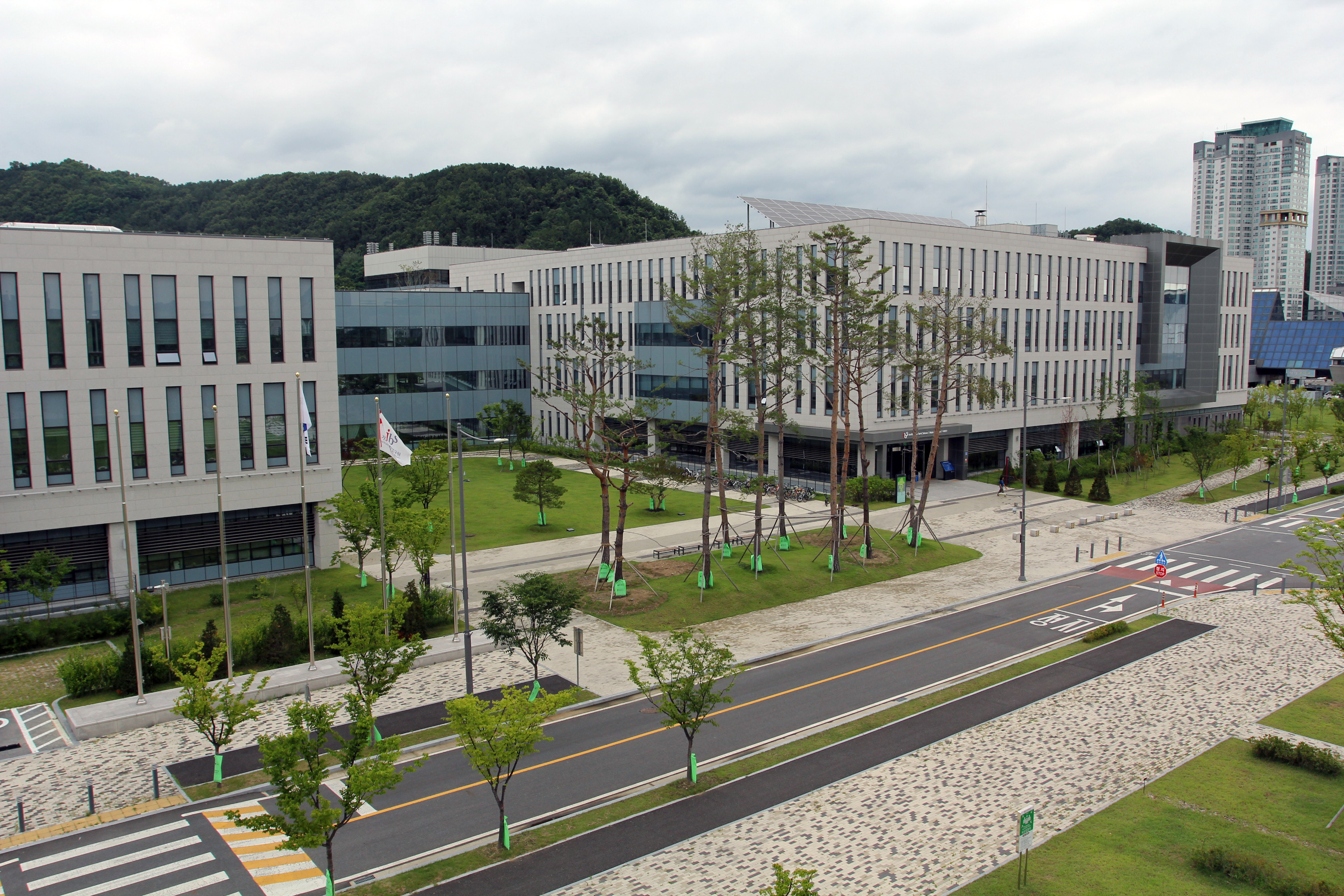 Building entrance to the Institute for Basic Science (IBS) headquarters complex taken 1 July 2020.